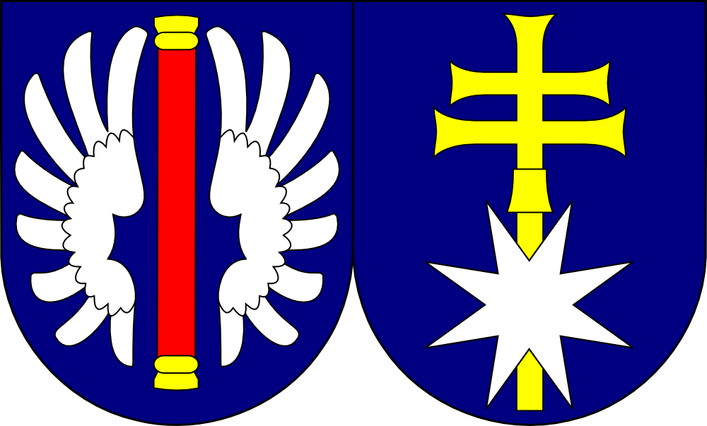 Coat of arms (shield only) of Marian Rudolf Kosík, abbot of Nová Říše, Czech Republic (1999 - ). Version used until 2001. Based on POKORNÝ, Pavel Rudolf: Patnáctý opat v Nové Říši, In: Genealogické a heraldické informace 1999, p. 27 - 28.